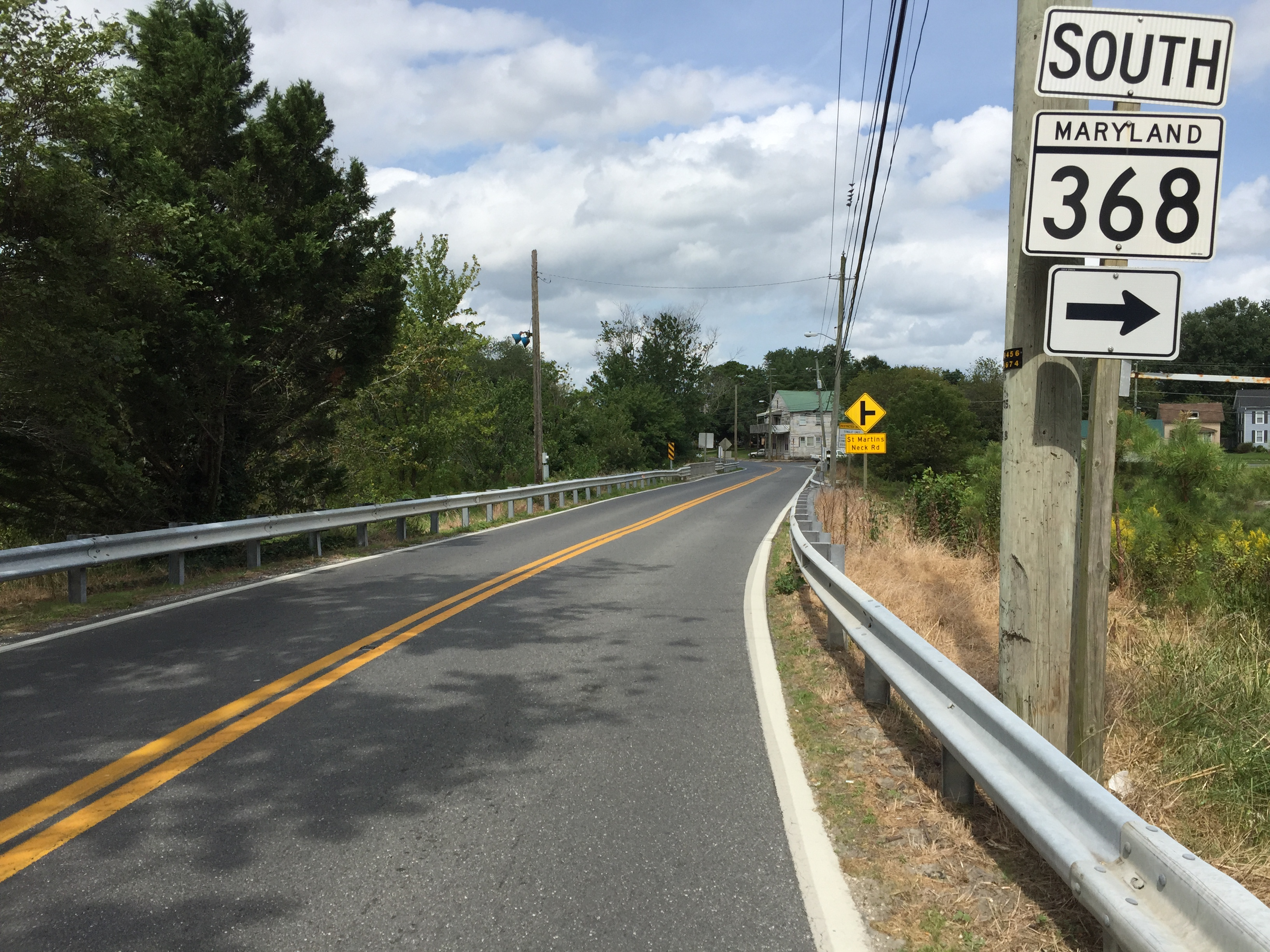 View east along Maryland State Route 367 (Bishopville Road) just west of Maryland State Route 368 (Saint Martins Neck Road) in Bishopville, Worcester County, Maryland